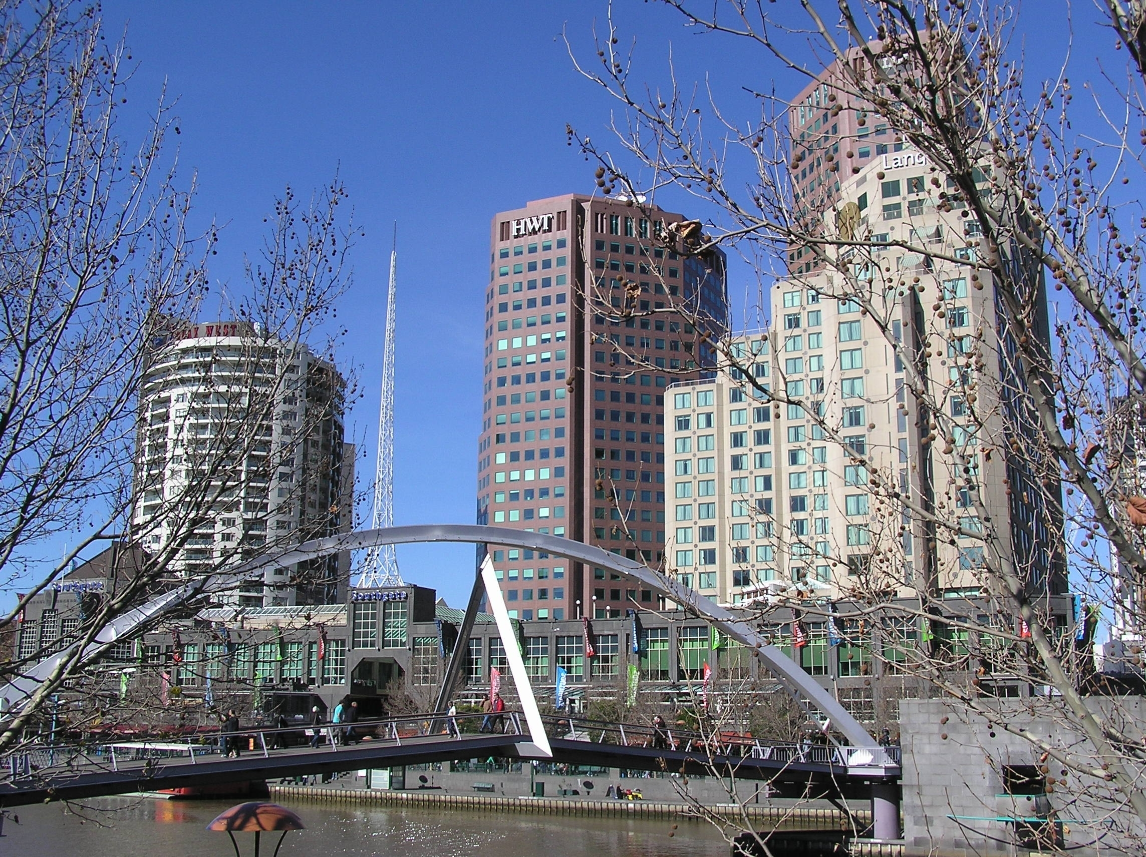 Southbank Foot Bridge